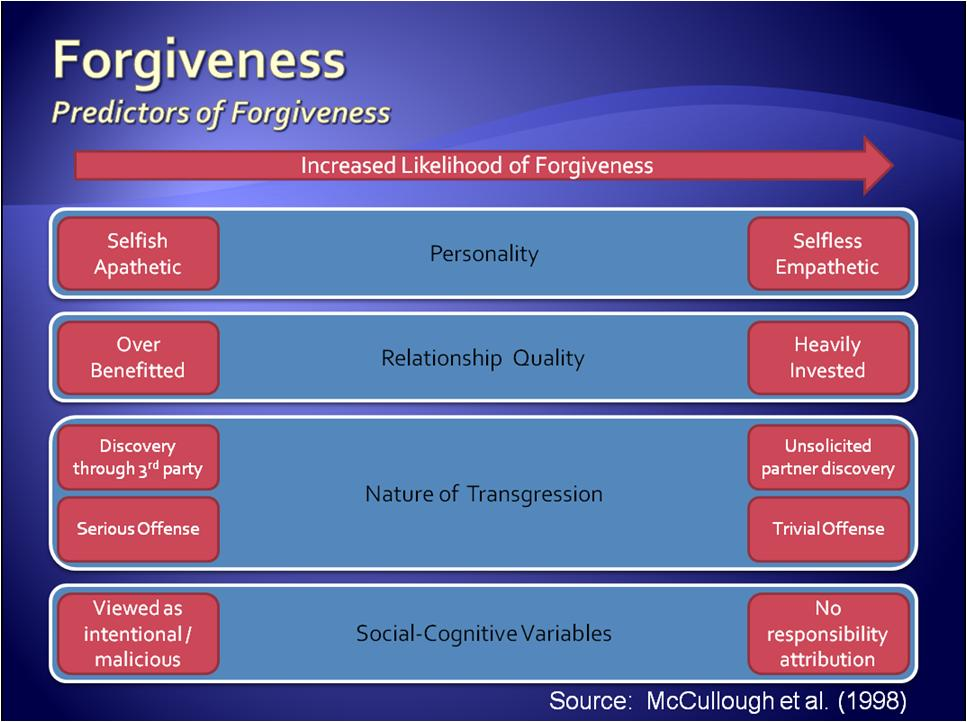 Graphic on forgiveness